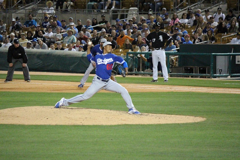 José Domínguez pitching for the Dodgers in spring training